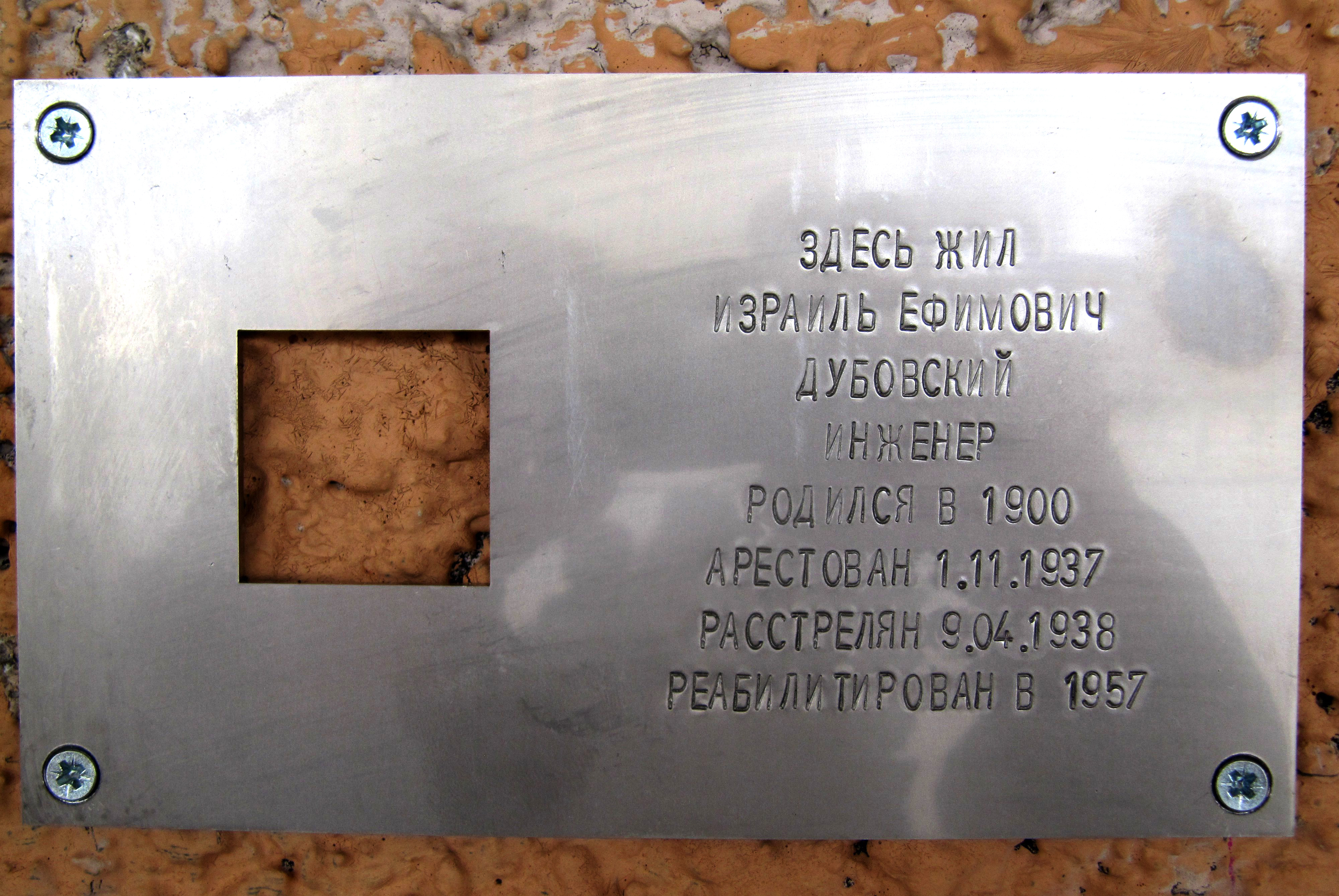 The Last Address Sign is a commemorative plaque that is installed on the last known residential address of victims of the Soviet Union's Communist regime. The memorial sign is a small, 11x19 cm stainless steel plaque that contains information about the repressed person. This information usually contains his or her name, profession, date of birth, date of arrest, date and reason of death (was shot or died in a Soviet concentration camp), and date of rehabilitation ('for lack of corpus delicti').